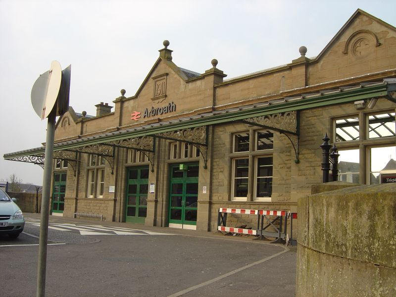 Arbroath rail station